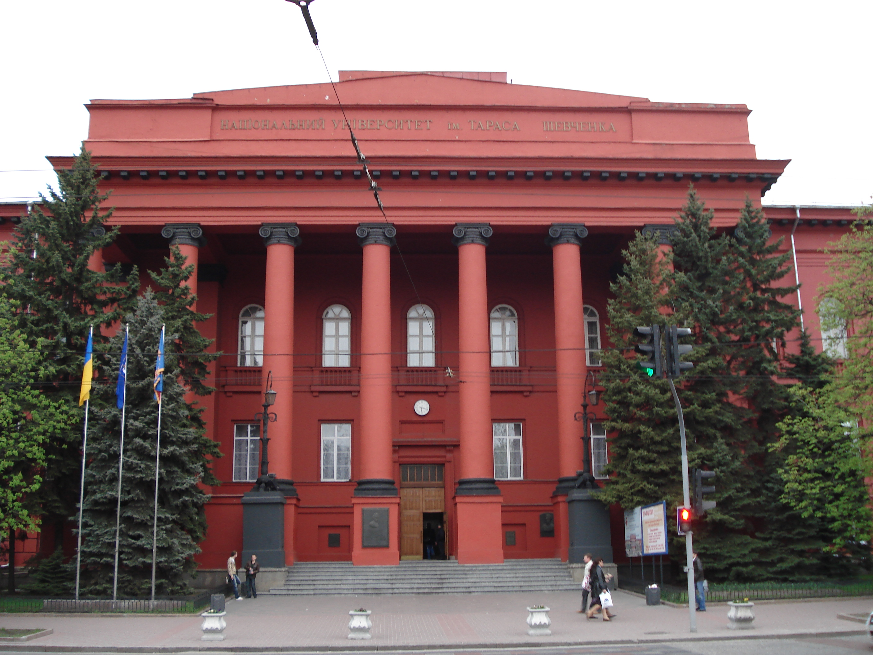 Taras Shevchenko National University in Kiev